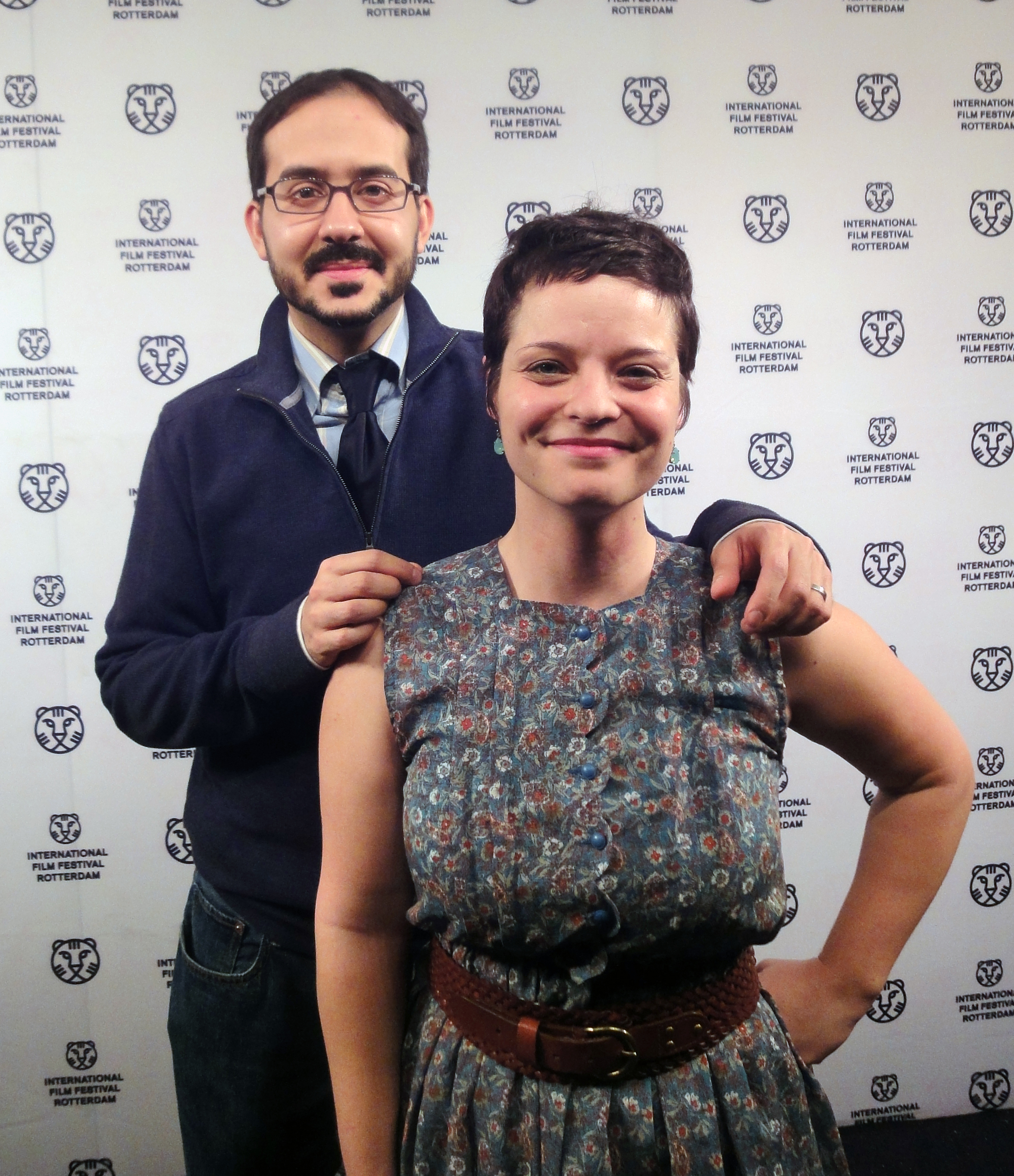 Fransisco Bello, editor, with Penny Lane, director of "Our Nixon" at the IFFR 2013